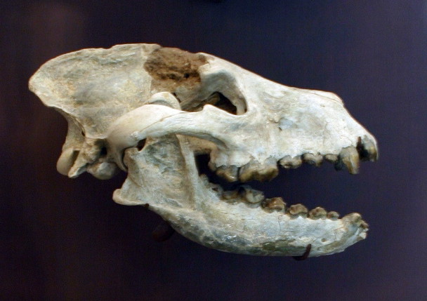 Fossil Aelurodon taxoides skull on display in the American Museum of Natural History in New York.